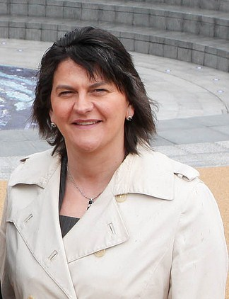 Arlene Foster, DUP